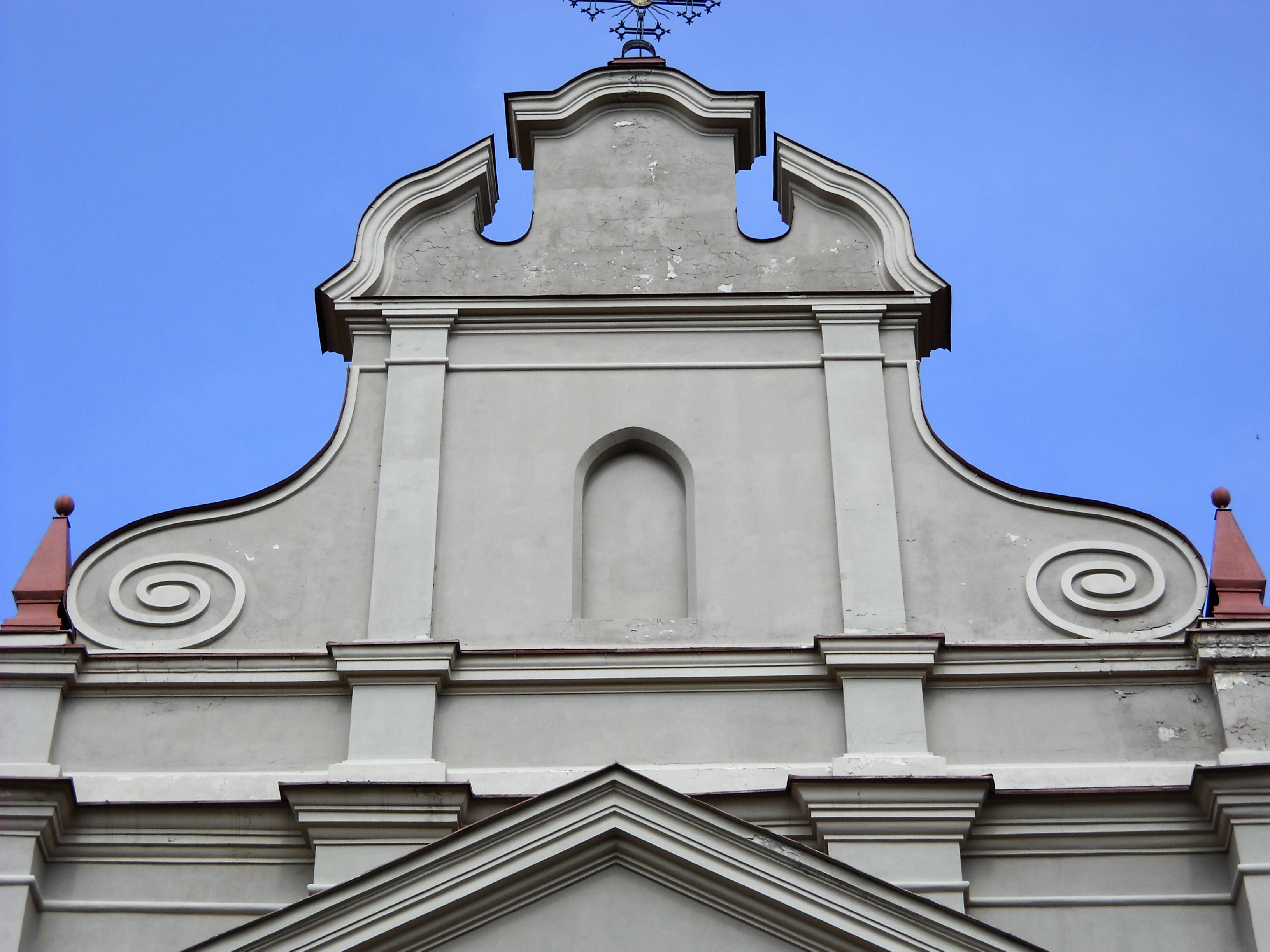 Church of St. Ignatius, Vilnius